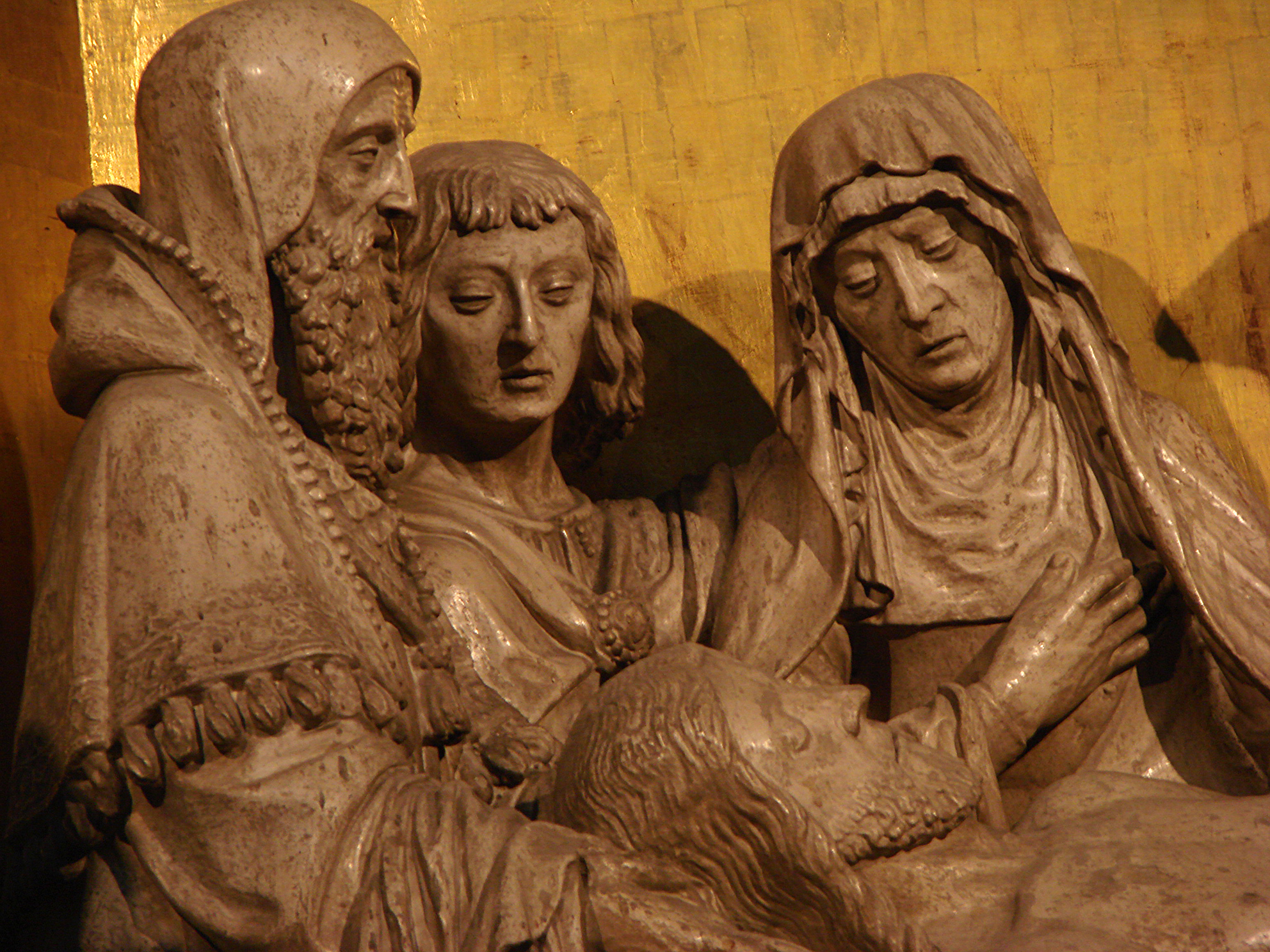 Entombment of Christ, Auch Cathedral, France.